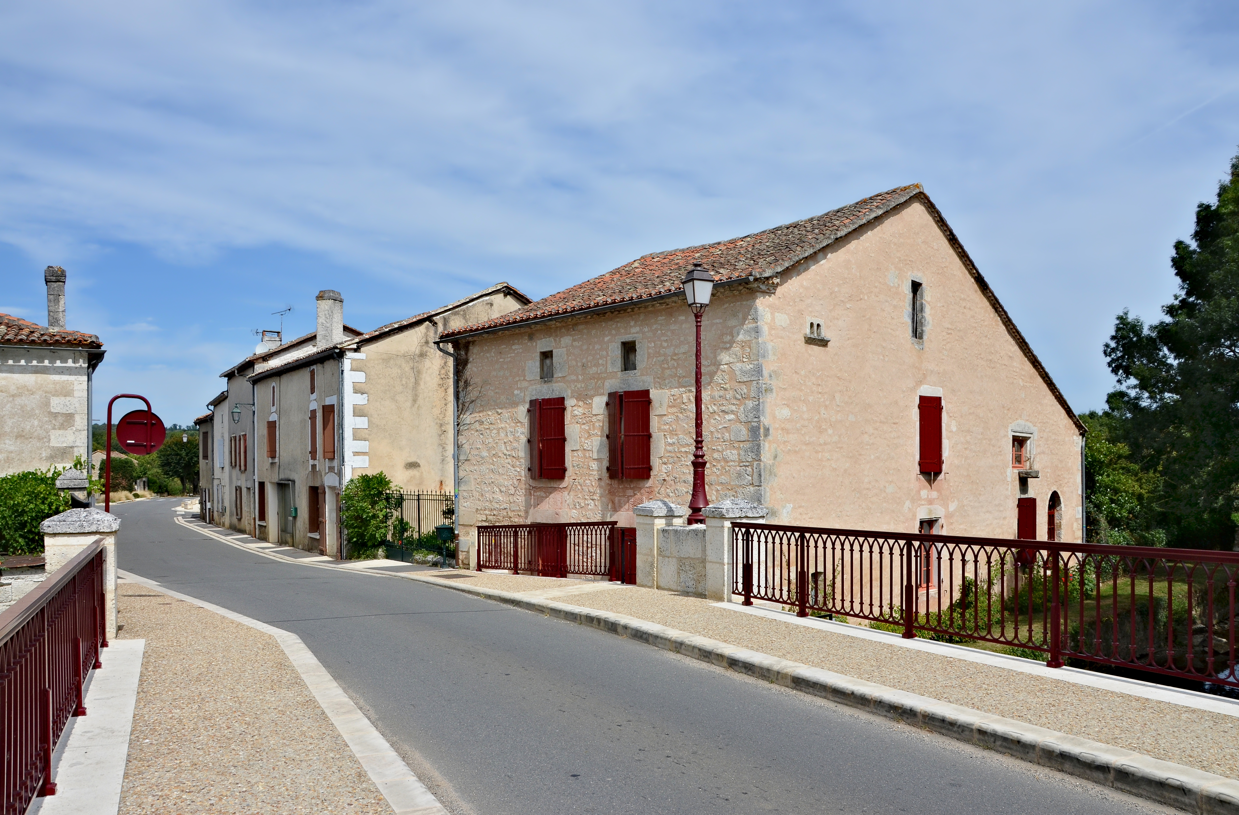 Village street (D 16) as seen from the bridge on river Bandiat, Marthon, Charente, France.